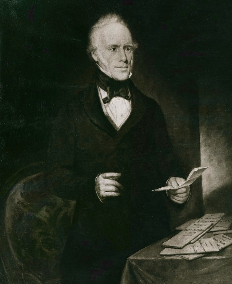 Depicted person: George Fife Angas – Australian politician